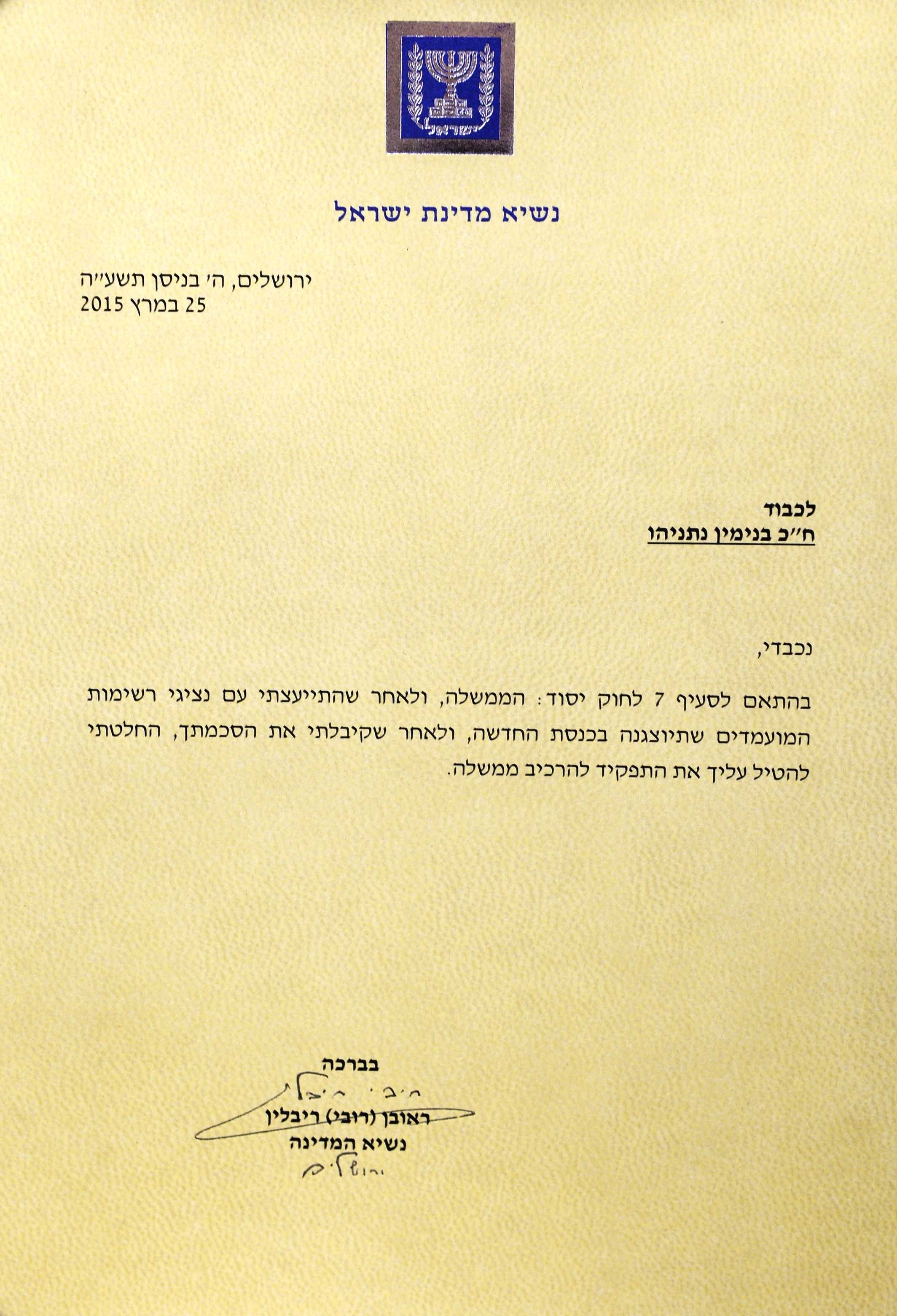 The letter of appointment of President Reuven Rivlin that assigned the task of forming the new government on Prime Minister Benjamin Netanyahu in an official ceremony held at the President's dinner